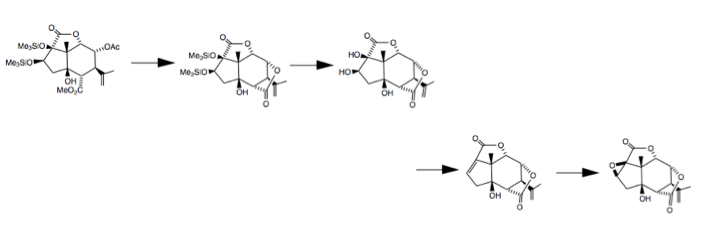 This image shows the final few steps in the synthesis of picrotoxinin from carvone